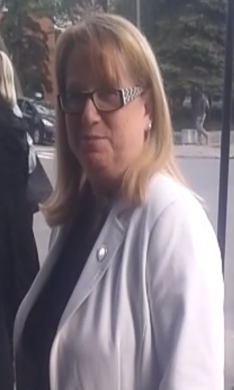 Carole Poirier photographed in Montréal, Québec, Canada .